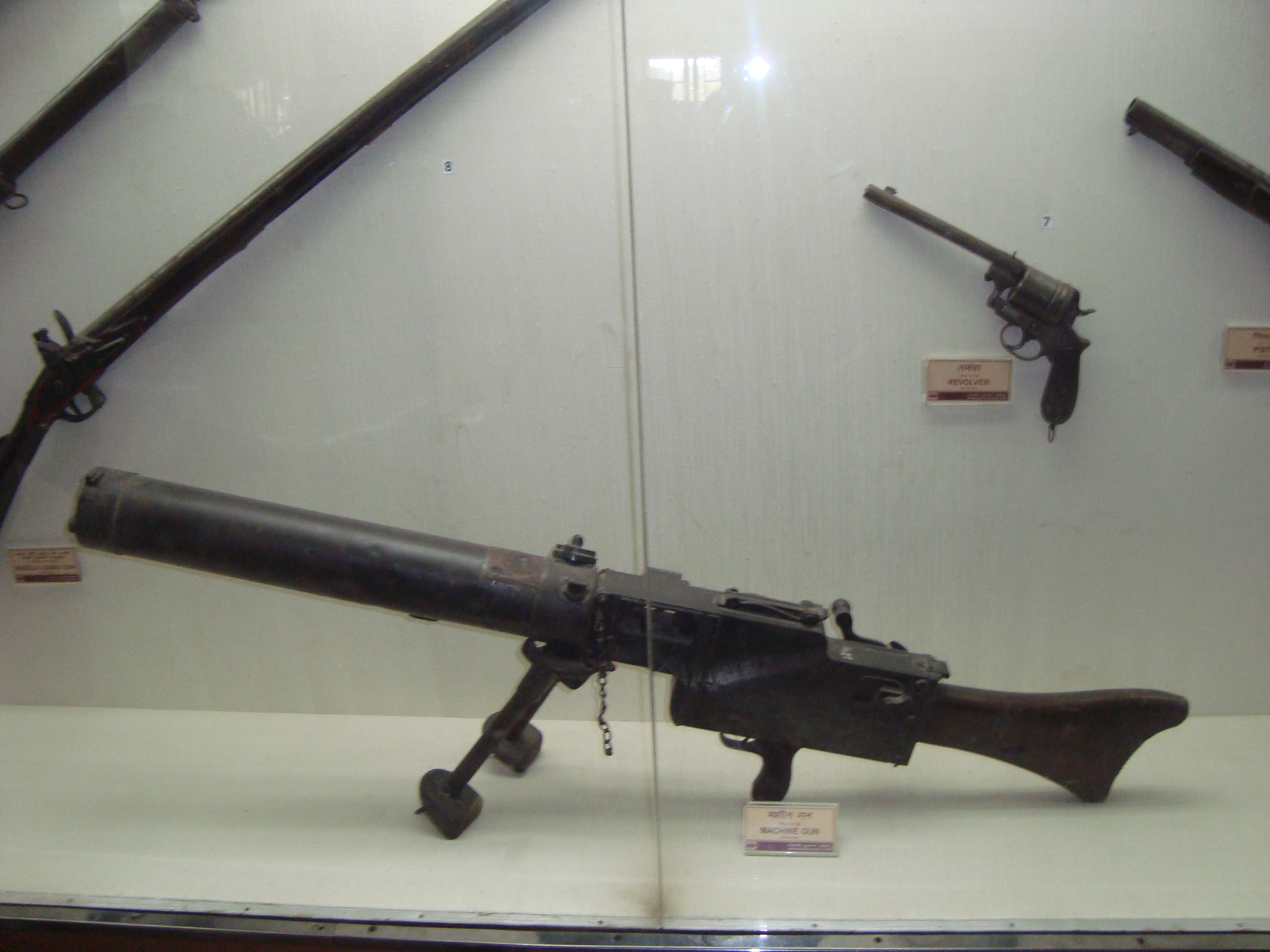 Article displayed at Indian War Memorial museum, Naubatkhana, Red Fort, Delhi